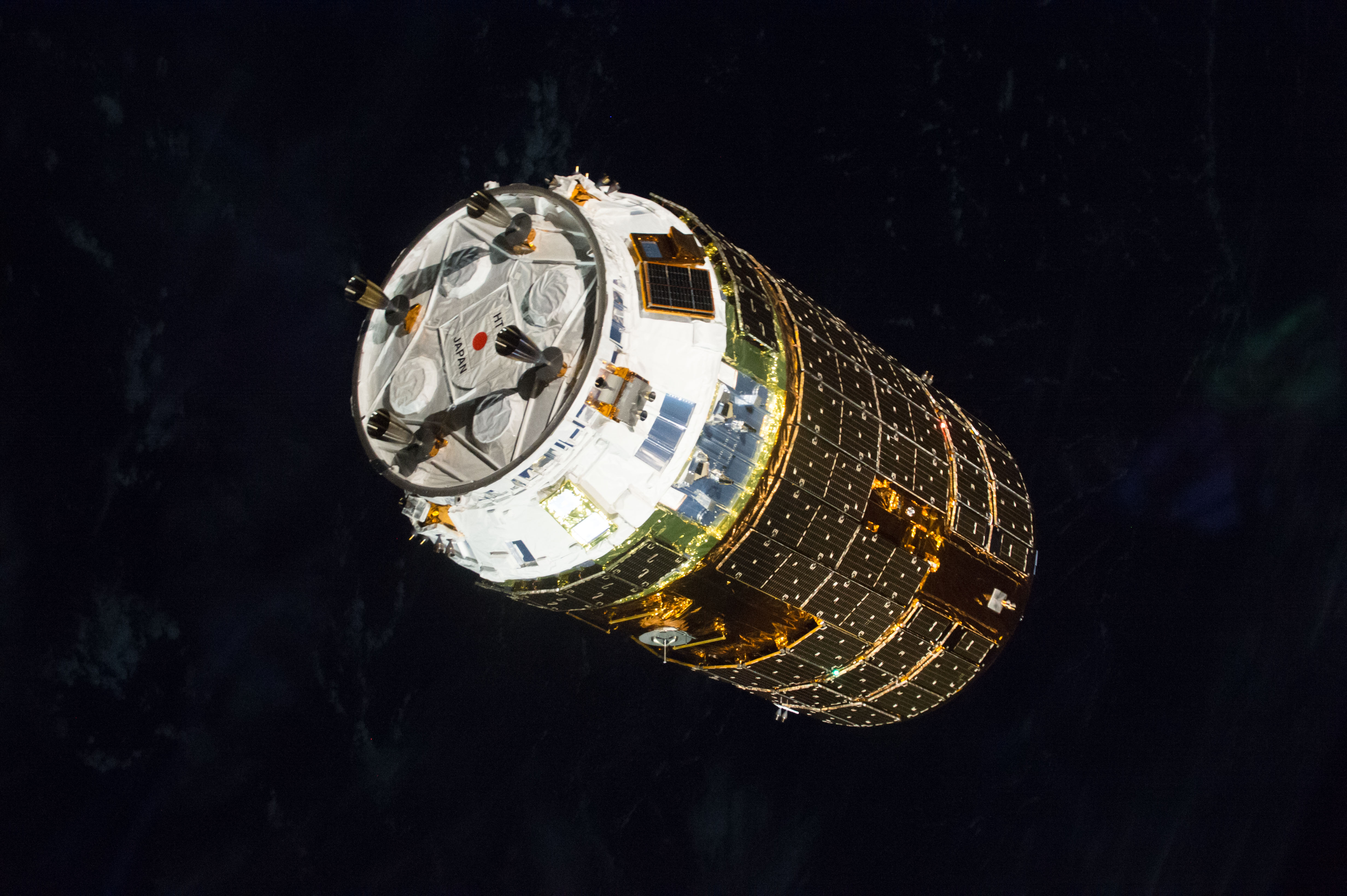 The Japanese HTV-6 cargo vehicle is seen during final approach to the International Space Station. HTV-6 launched from the Tanegashima Space Center in southern Japan on Friday, Dec. 9 and arrived at the space station on Tuesday, Dec. 13. The vehicle was loaded with more than 4.5 tons of supplies, water, spare parts and experiment hardware for the six-person station crew, including six new lithium-ion batteries and adapter plates that will replace the nickel-hydrogen batteries currently used on the station to store electrical energy generated by the station’s solar arrays.